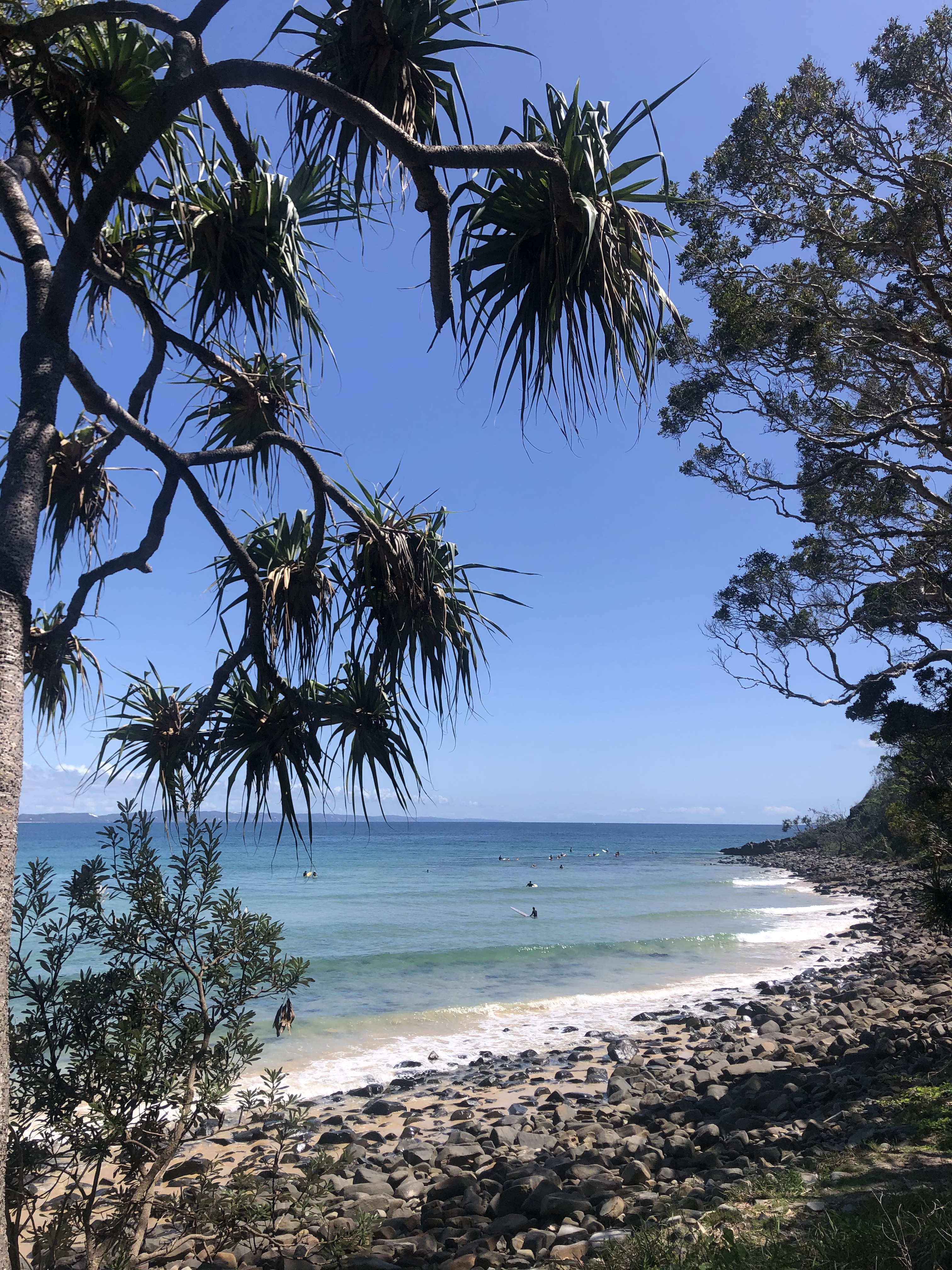 Noosa Heads, Queensland - Trail Walk, taken from headland